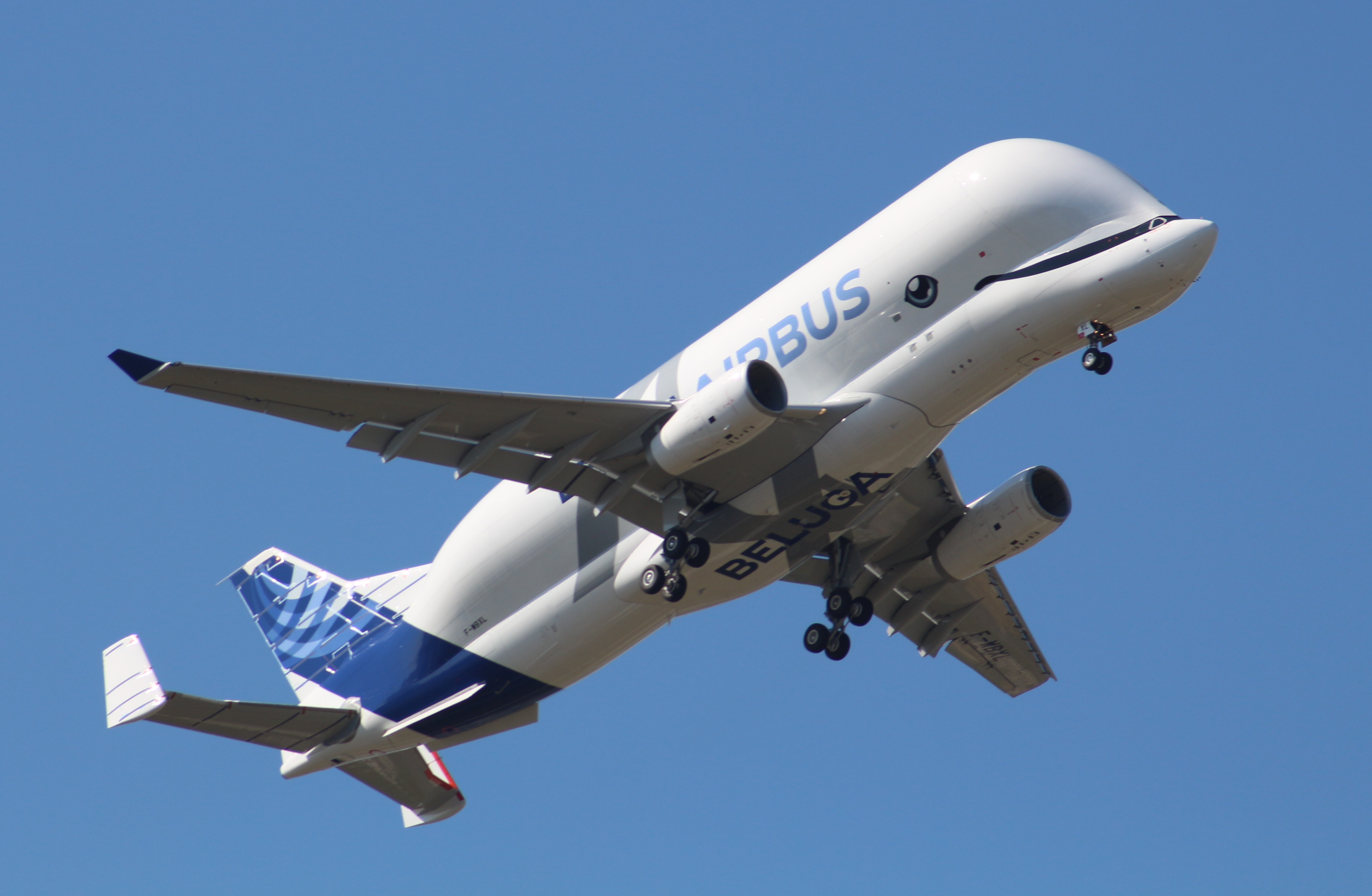 Maiden flight of the "Beluga XL" on 2018, July 19th at around 10:31am